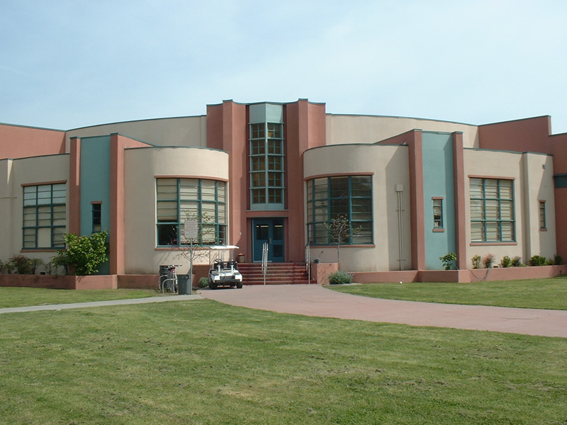 Entrance to the Sierra Vista Campus of Redwood High School — in Visalia, the San Joaquin Valley, central California. A 1930s Streamline Moderne style building by the WPA-Works Progress Administration in California.